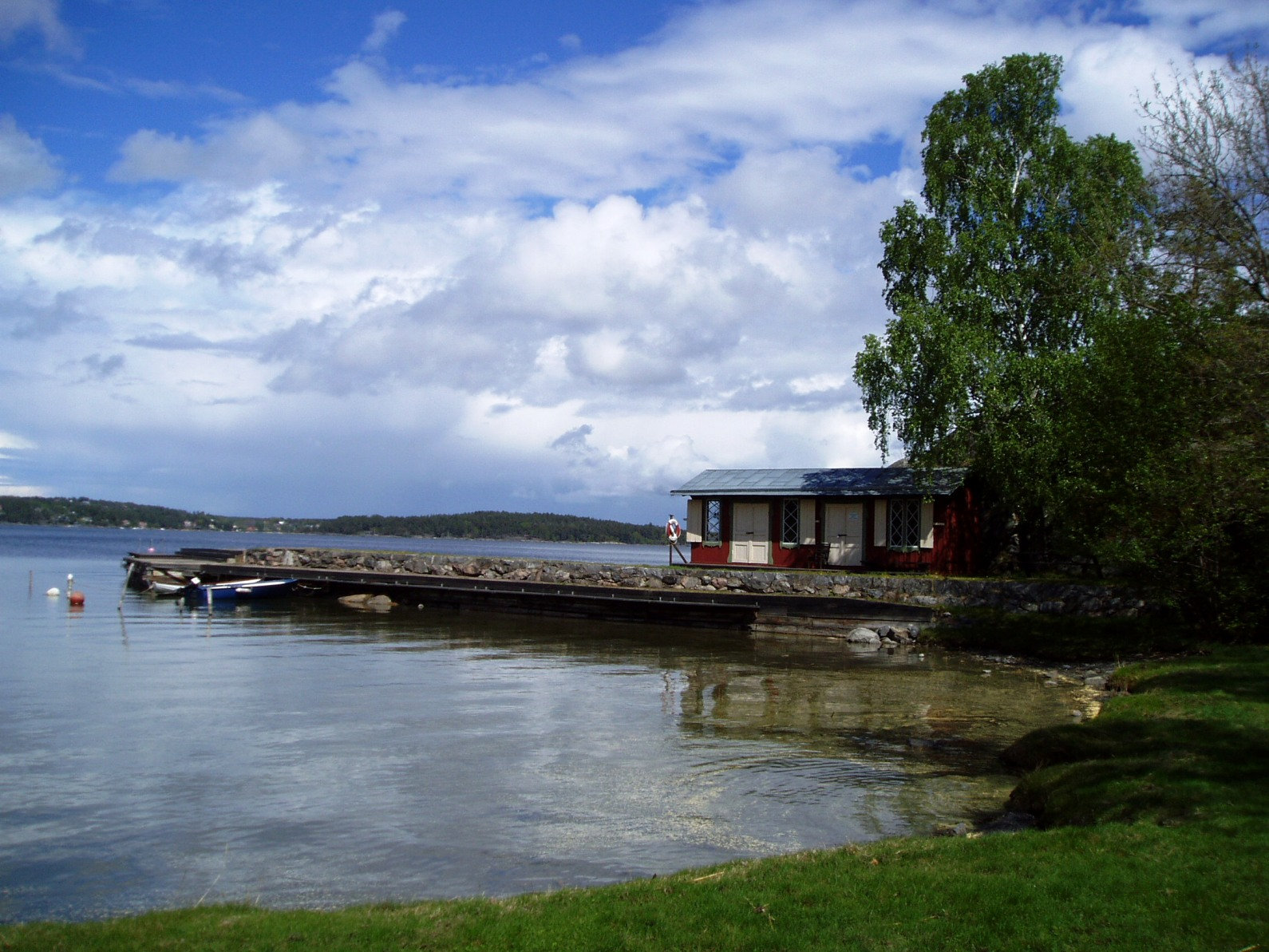 Pier, Tyresö municipality, Sweden